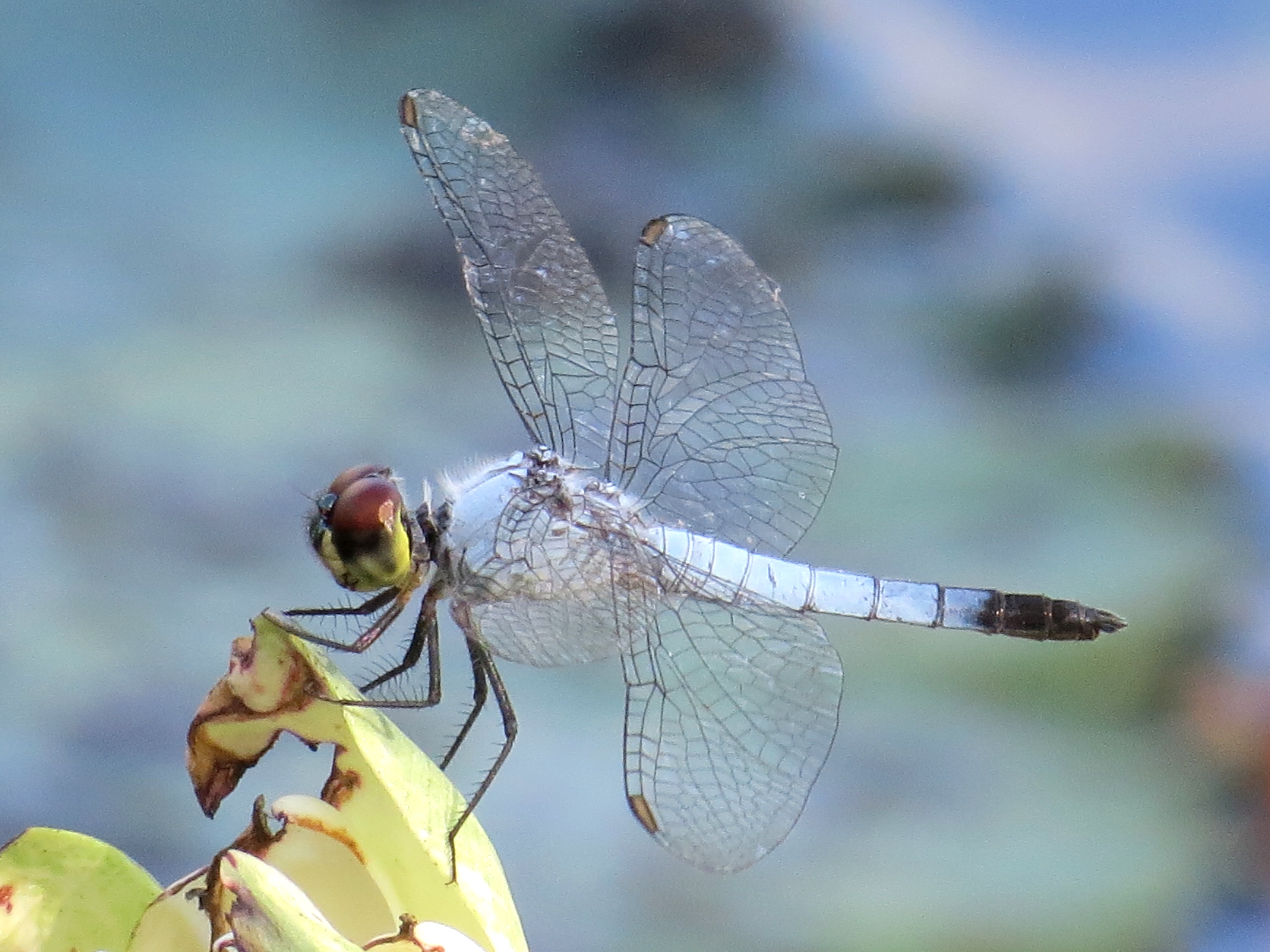 Palemouth male (Brachydiplax denticauda) at Cairns, Australia